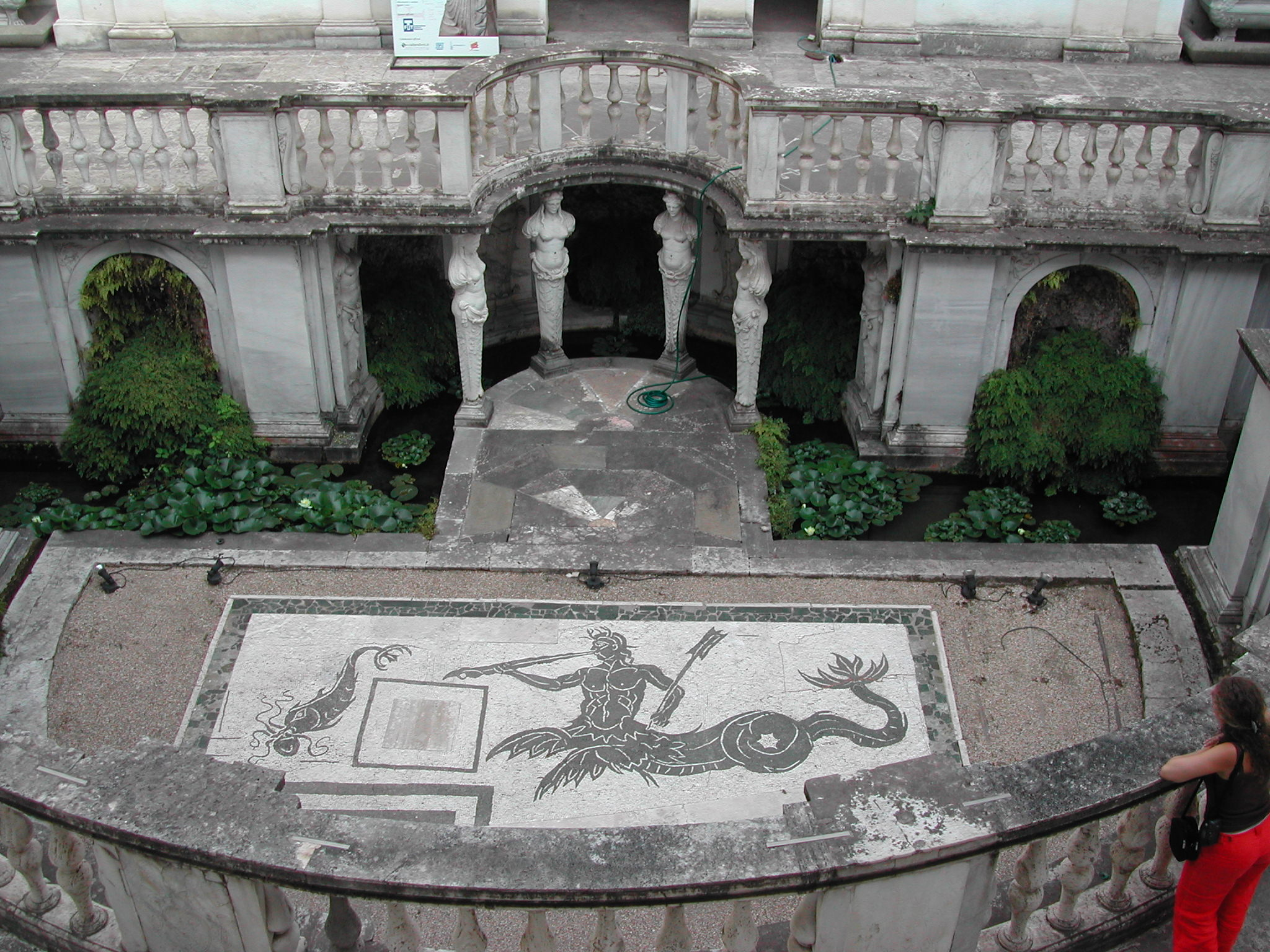 Nymphaeum in Roma, at the , re-using an Ancient Roman mosaic of a triton. Picture by LaLupa.